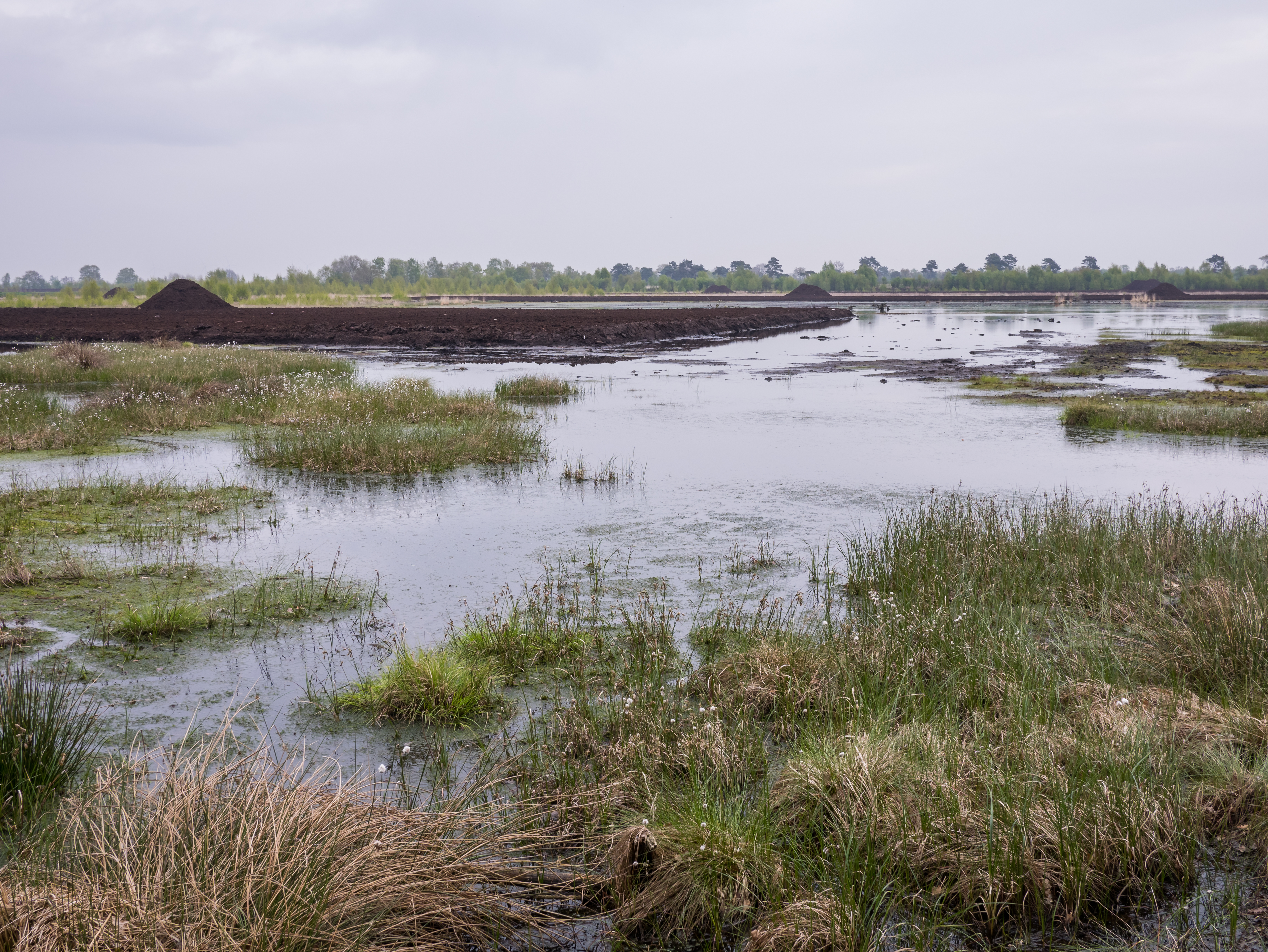 Peat extraction at the Venner Moor bog. Venne, Ostercappeln, Lower Saxony, Germany